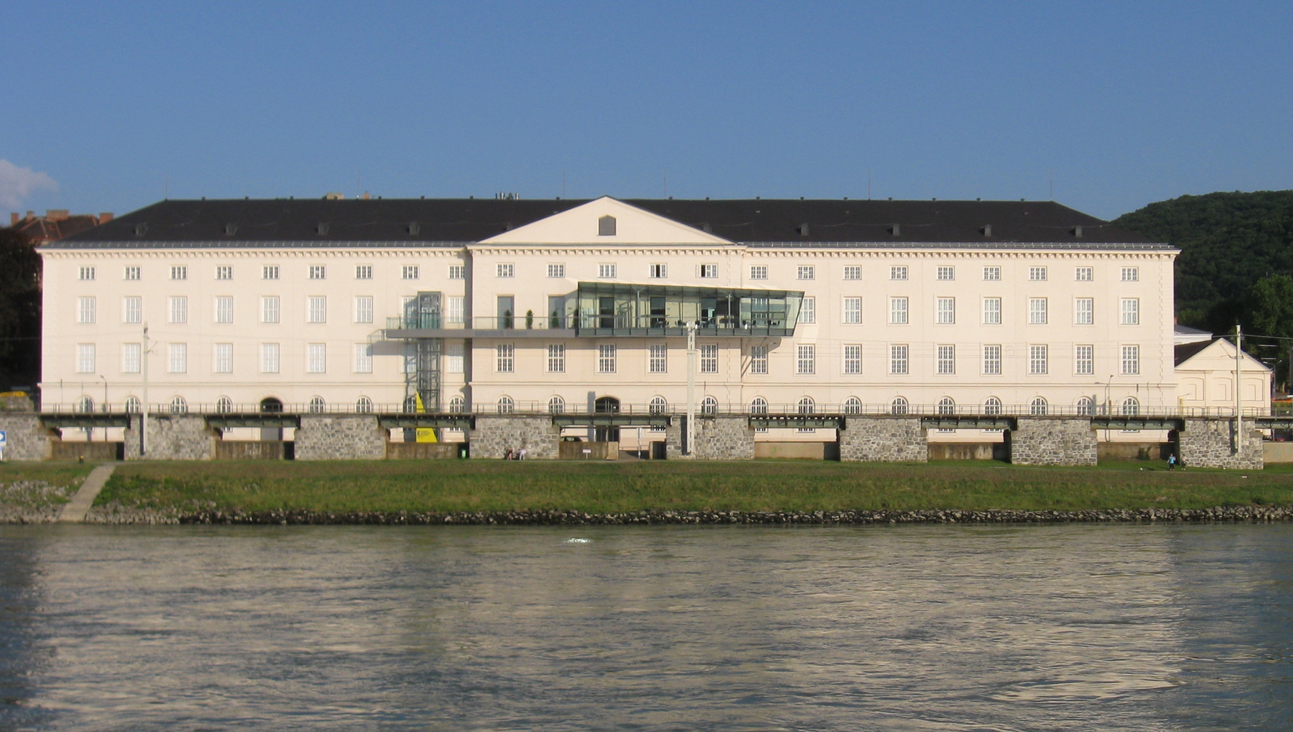 View of the Kulturfabrik in Hainburg an der Donau from the Danube. Built in 1847, the building was used to manufacture tobacco products until the end of the 20th century.